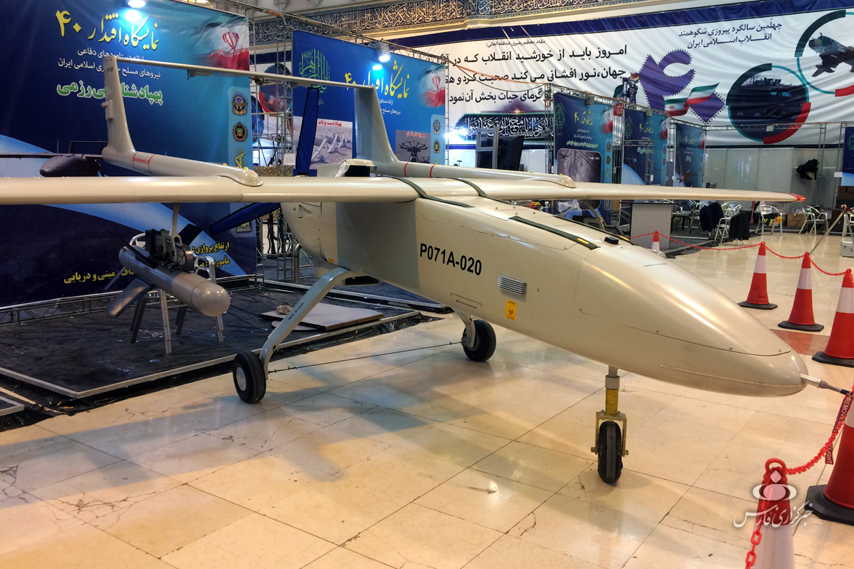 Mohajer-6 UAV with serial number P071A-020 seen during the Eqtedar 40 defence exhibition in Tehran.